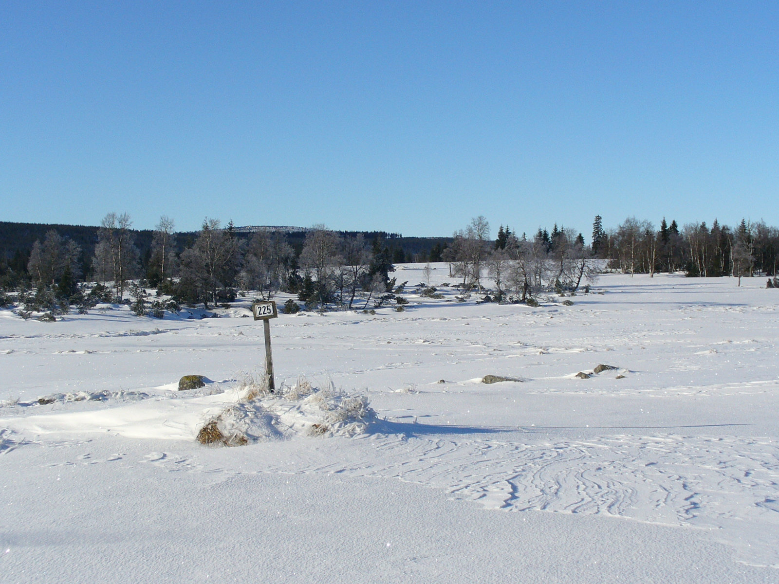 Ruins of house. Former village Gross Iser - Silesia.